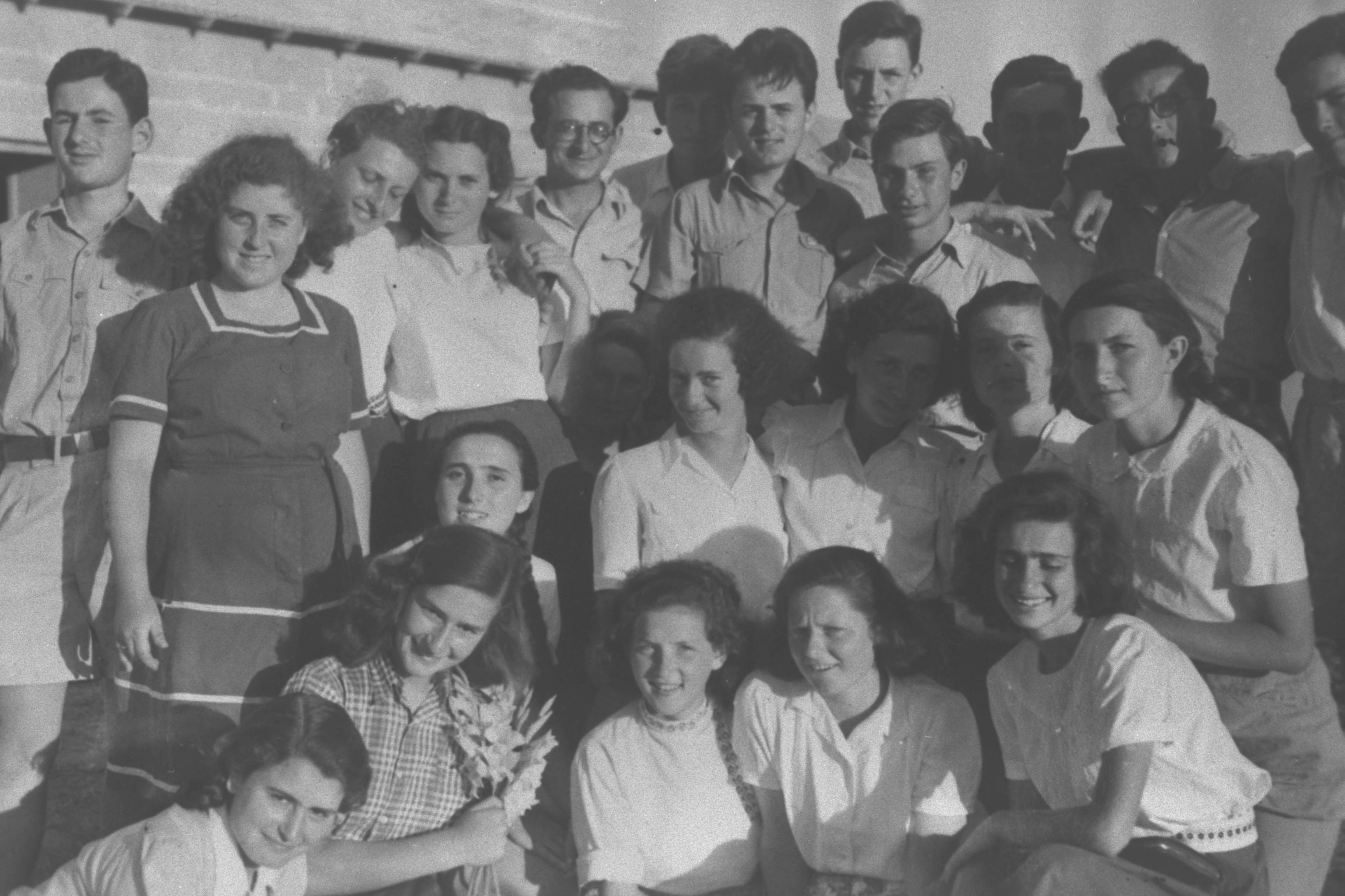 YITZHAK NAVON (TOP ROW CENTER WITH GLASSES), TEACHER AT THE BEIT HAKEREM SECONDARY SCHOOL IN JERUSALEM WITH A GROUP OF HIS PUPILS AT A SUMMER WORK CAMP AT SHEFAIM.